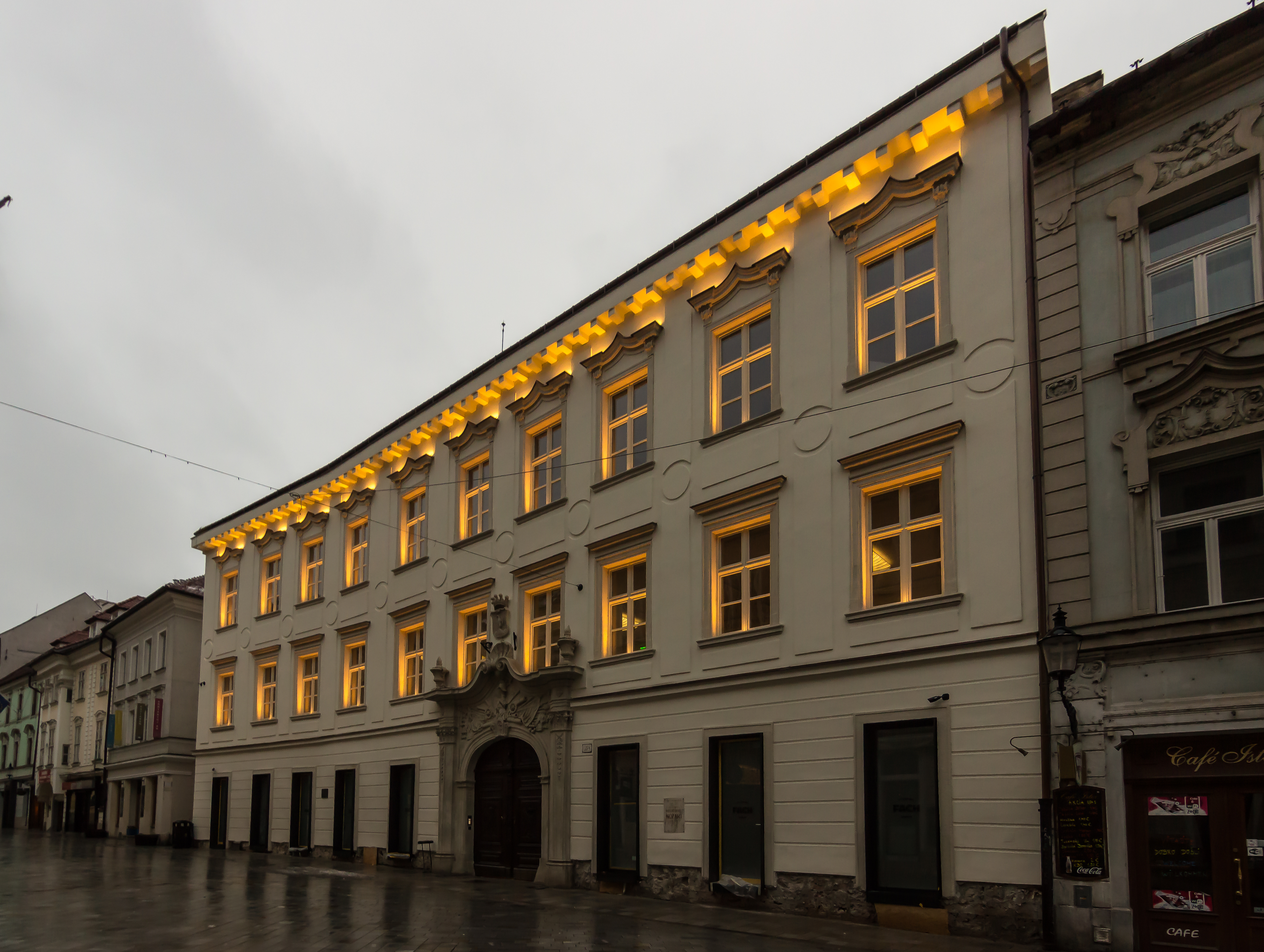 Pálffy Palace illuminated